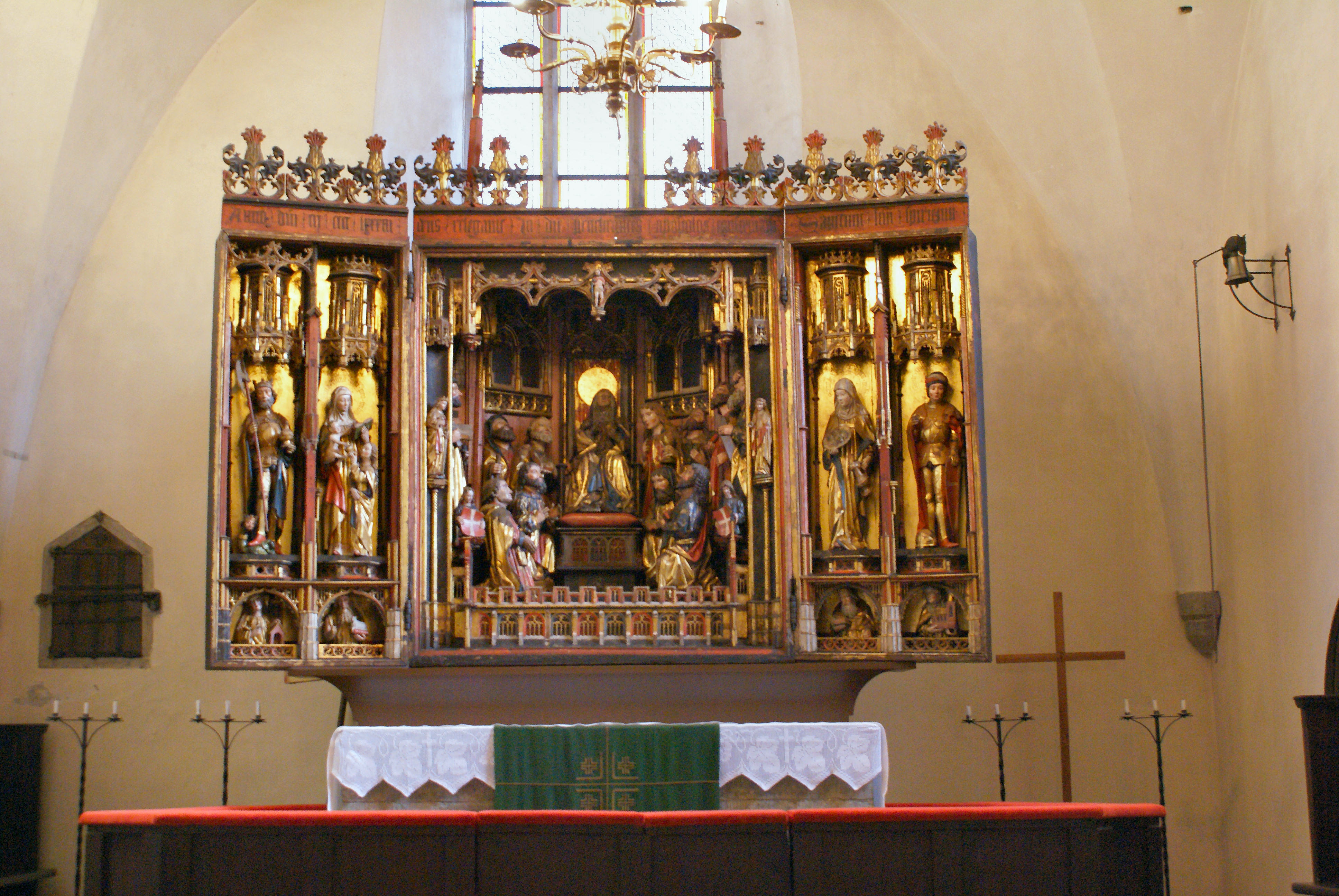 Church of Holy Spirit in Tallinn